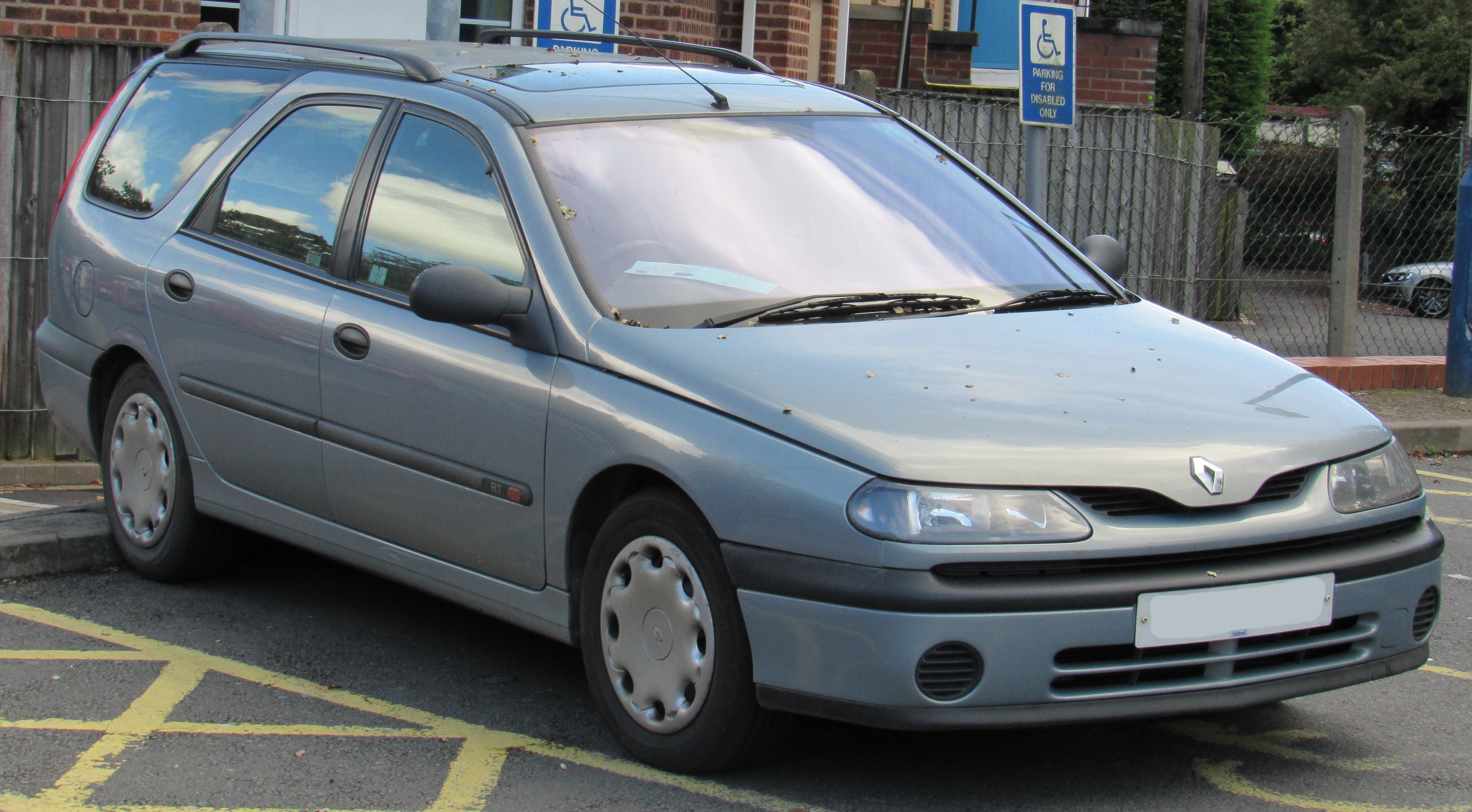 1998 Renault Laguna RT Sport Estate Automatic 2.0 Front Taken in Solihull